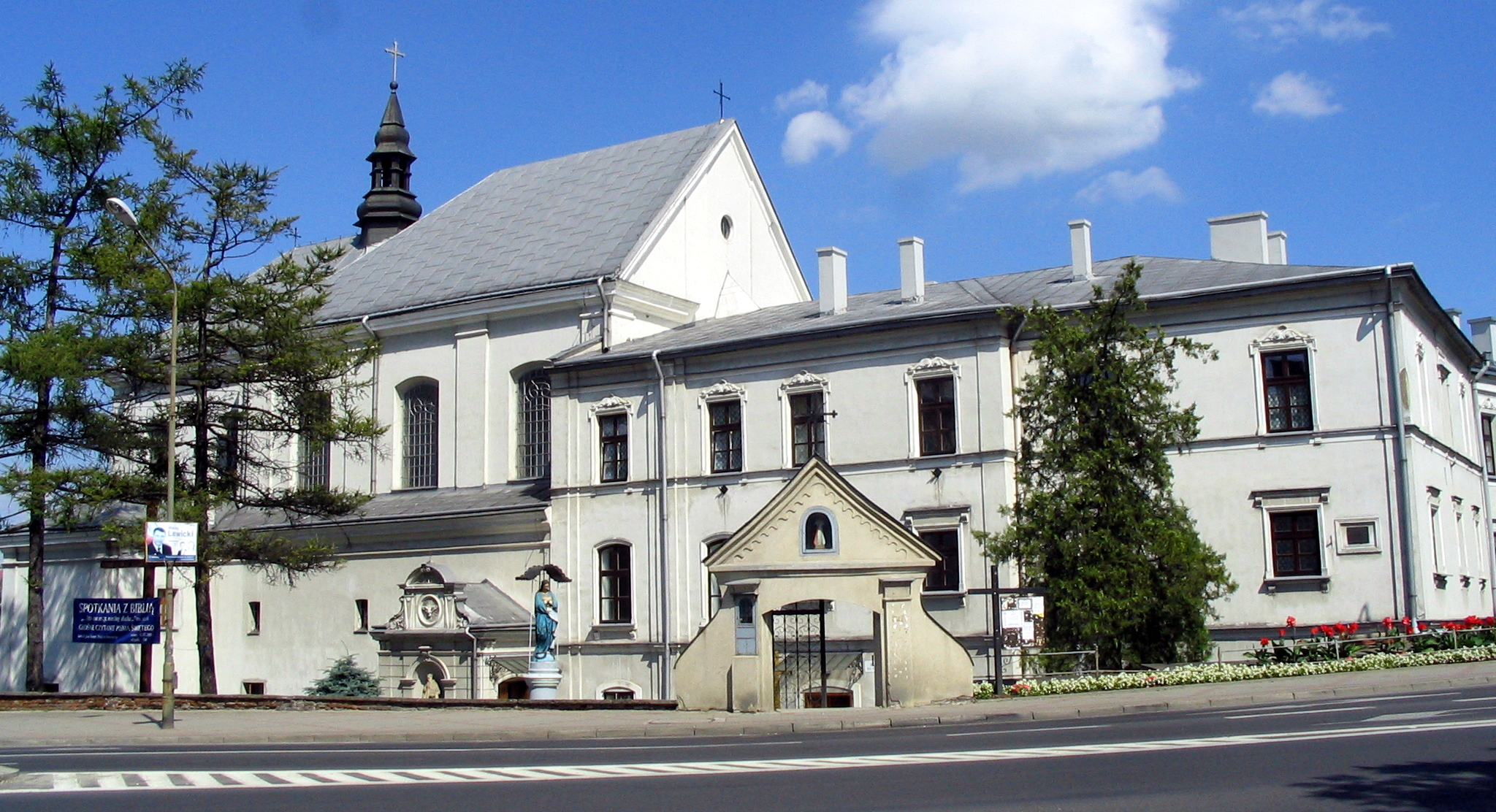 Benedictine Sisters abbey and Church of the Holy Trinity in Przemyśl, Poland